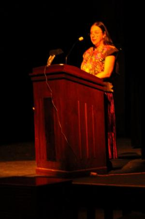 yolanda at podium